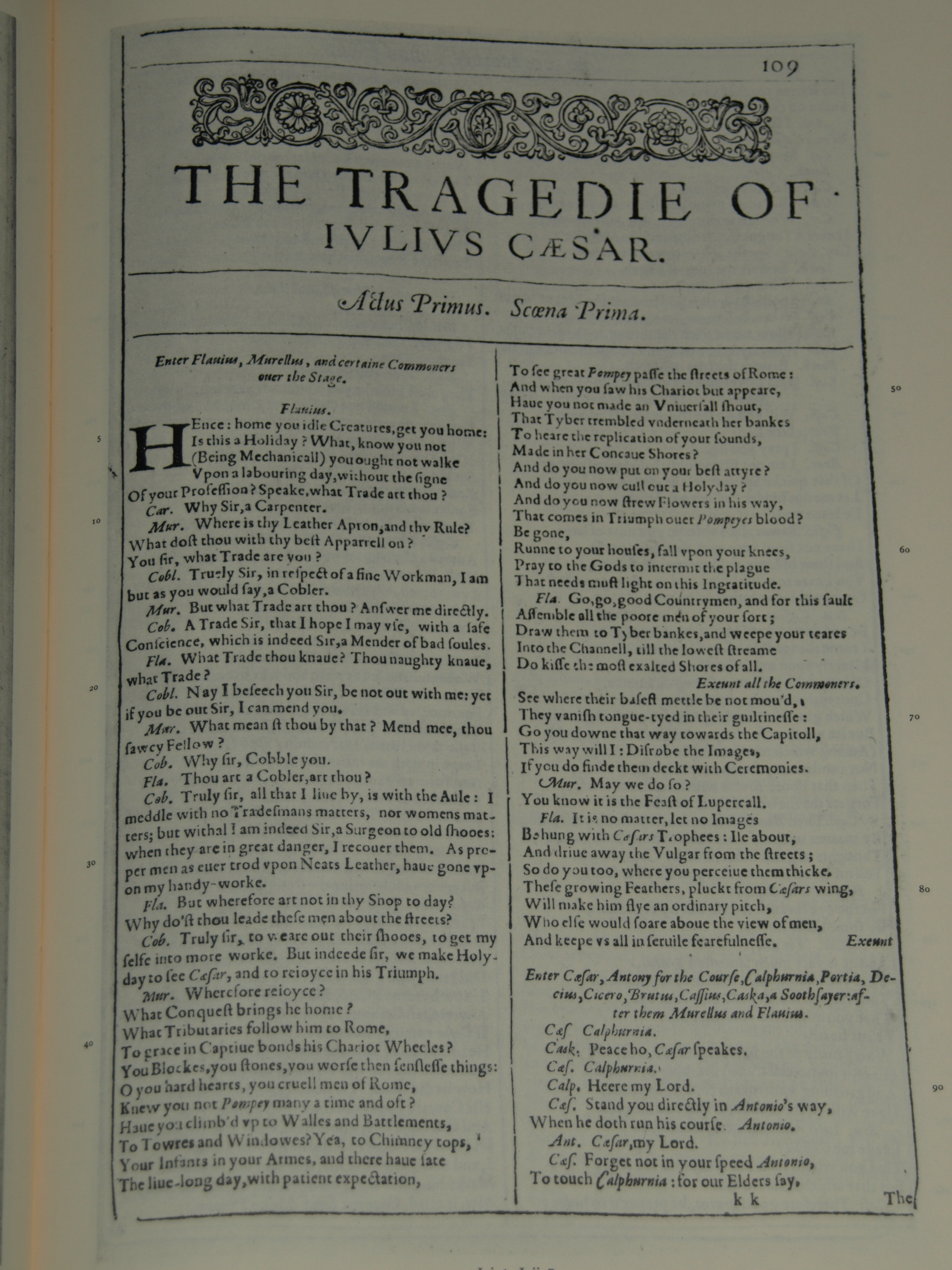 Photo of the first page of Julius Caesar from a facsimile edition of the First Folio of Shakespeare's plays, published in 1623